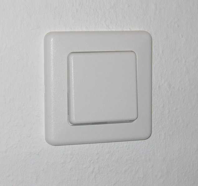 Light switch, 2005 photo. This switch design is named "Europe" - Manufacturer: Heinrich Kopp GmbH